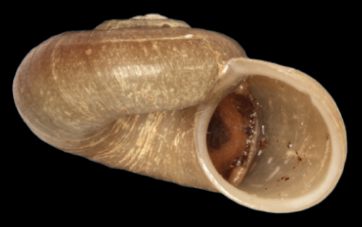 Photo of apertural view of the shell of Amphicyclotulus amethystinus. Width of the shell is 18.4 mm.